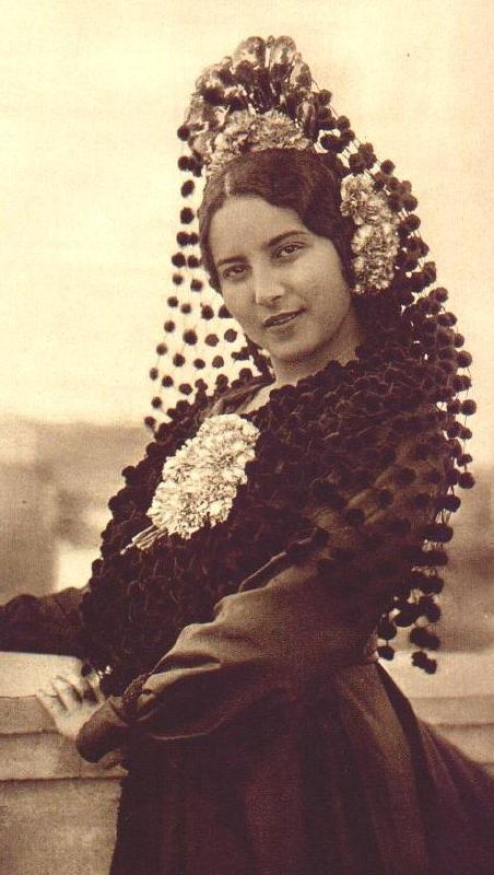 Jarez Mantilla. Probably from "1925 Spain Large Art Photobook 304 photogravures Espana".